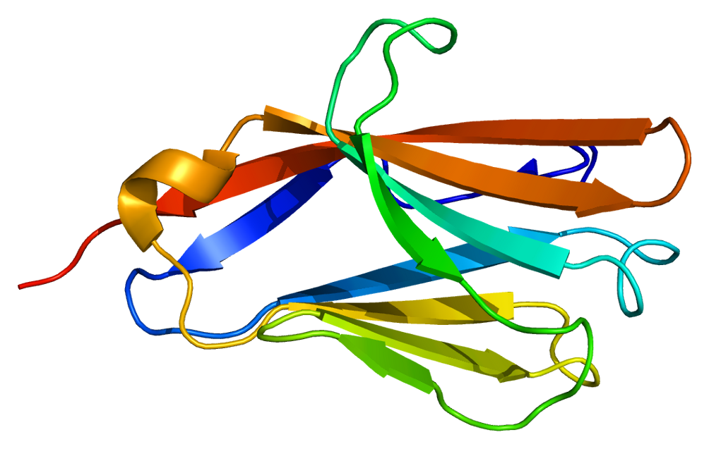 Structure of the CD300LF protein. Based on PyMOL rendering of PDB 2nms.